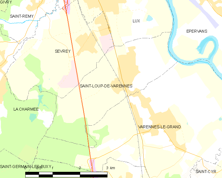 Map of French municipality